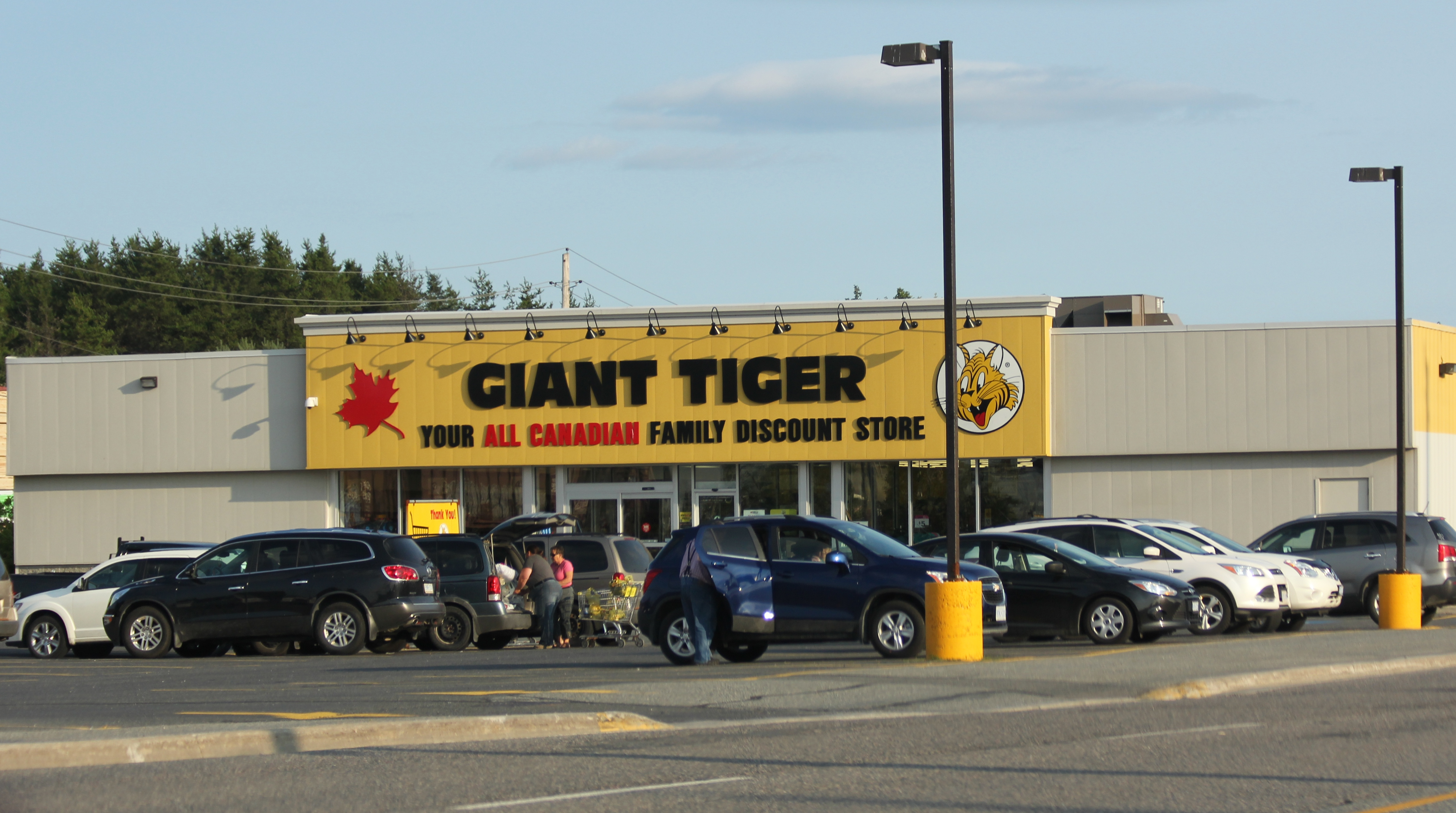 The Giant Tiger strore in Espanola, ON.